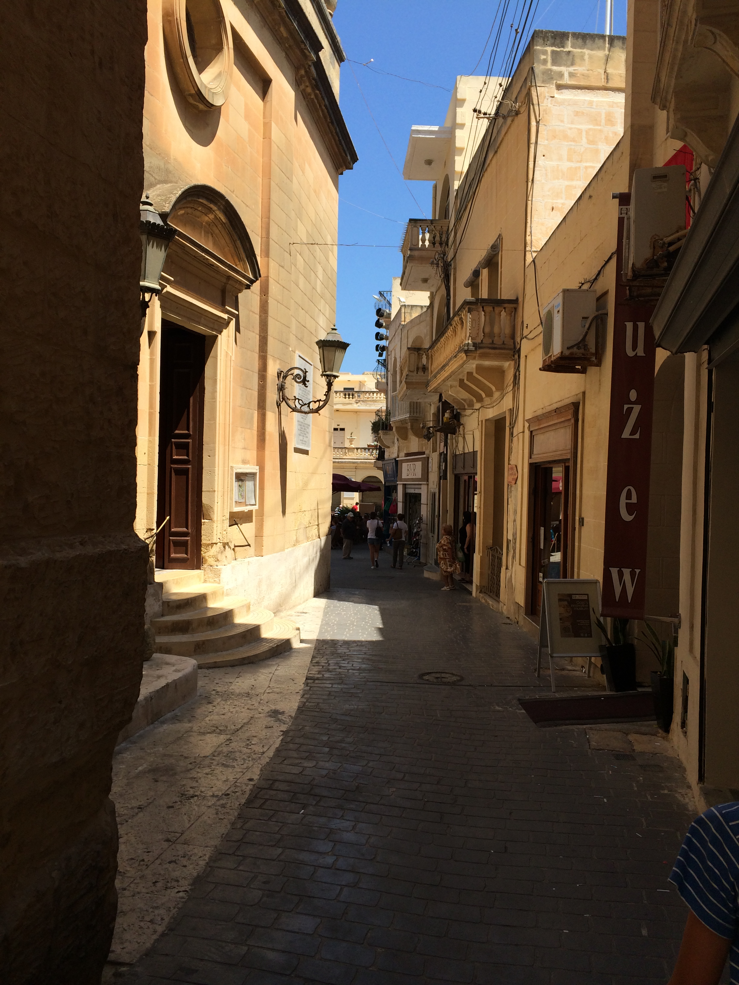 A street in the central part of the city of Victoria, Gozo.